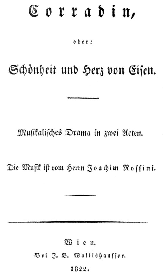 Gioachino Rossini - Matilde di Shabran - titlepage of the libretto - Vienna 1822